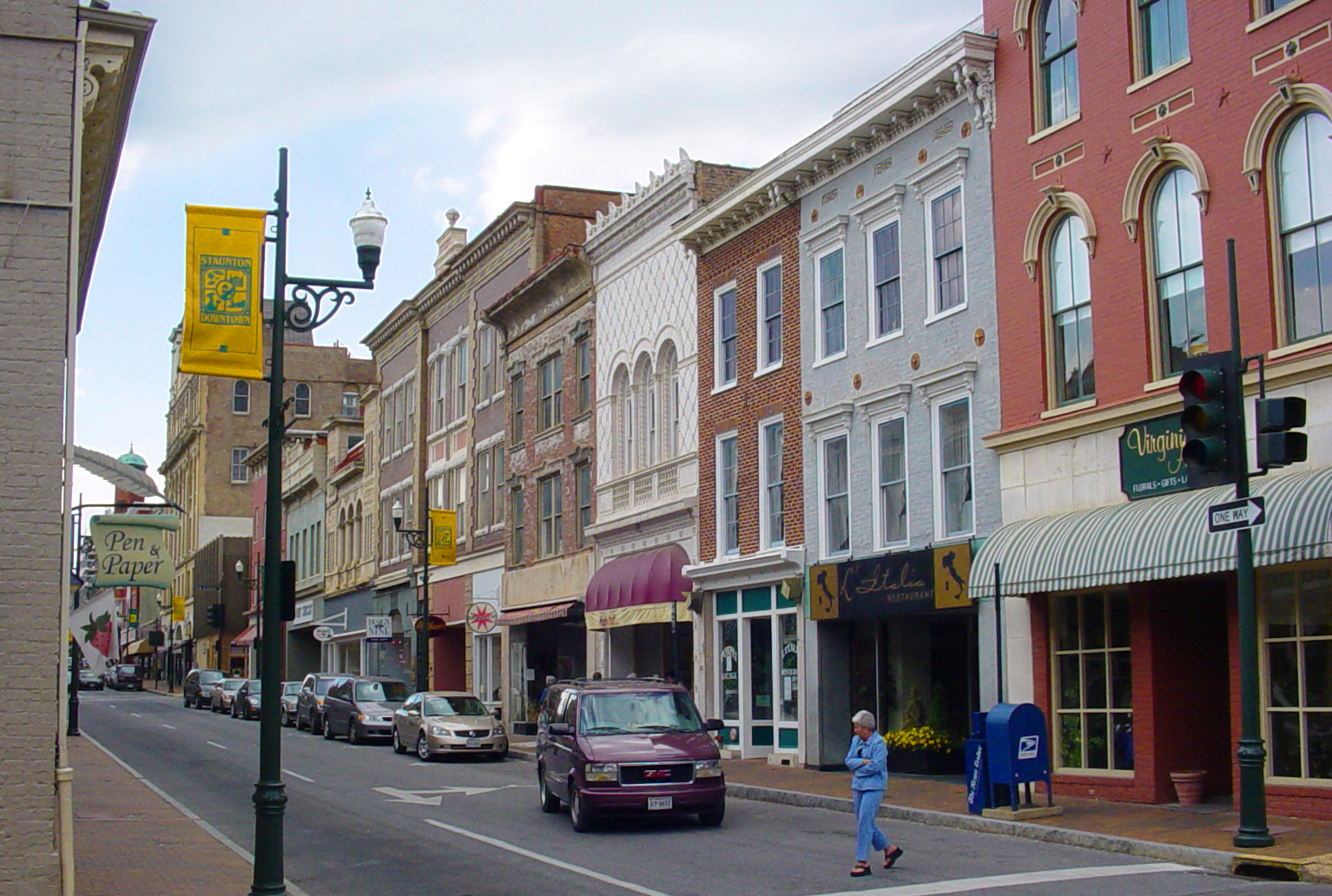 Downtown Staunton, VA, USA